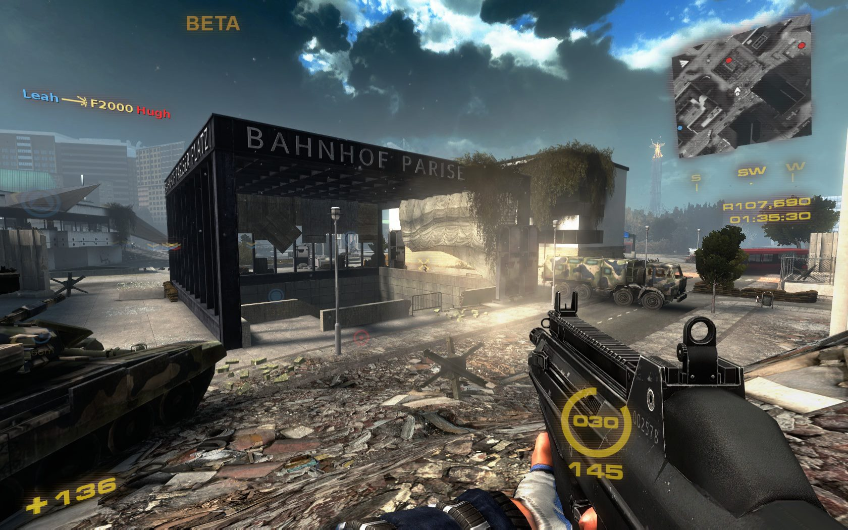 Nuclear Dawn screenshot depicting the Berlin based Gate map from a player's first person perspective. Released in 2011, the game was developed by Interwave Studios and built on the Source engine. Nuclear Dawn was updated to include the Gate map in 2012, following the map's success in a design competition.